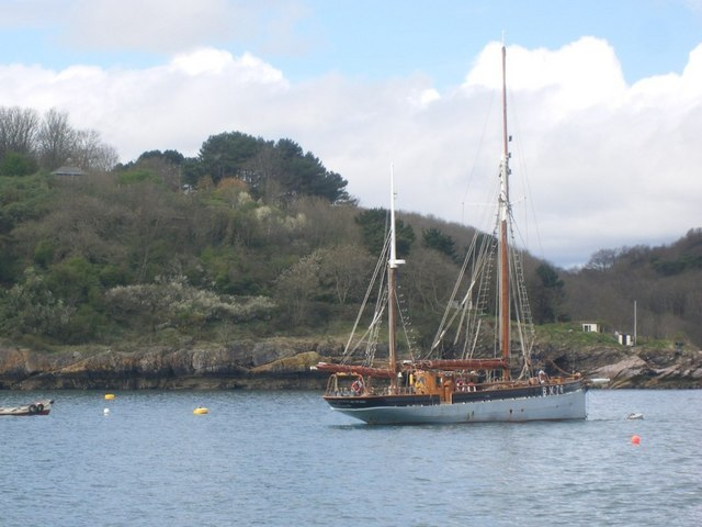 BM76 VIGILANCE at Brixham